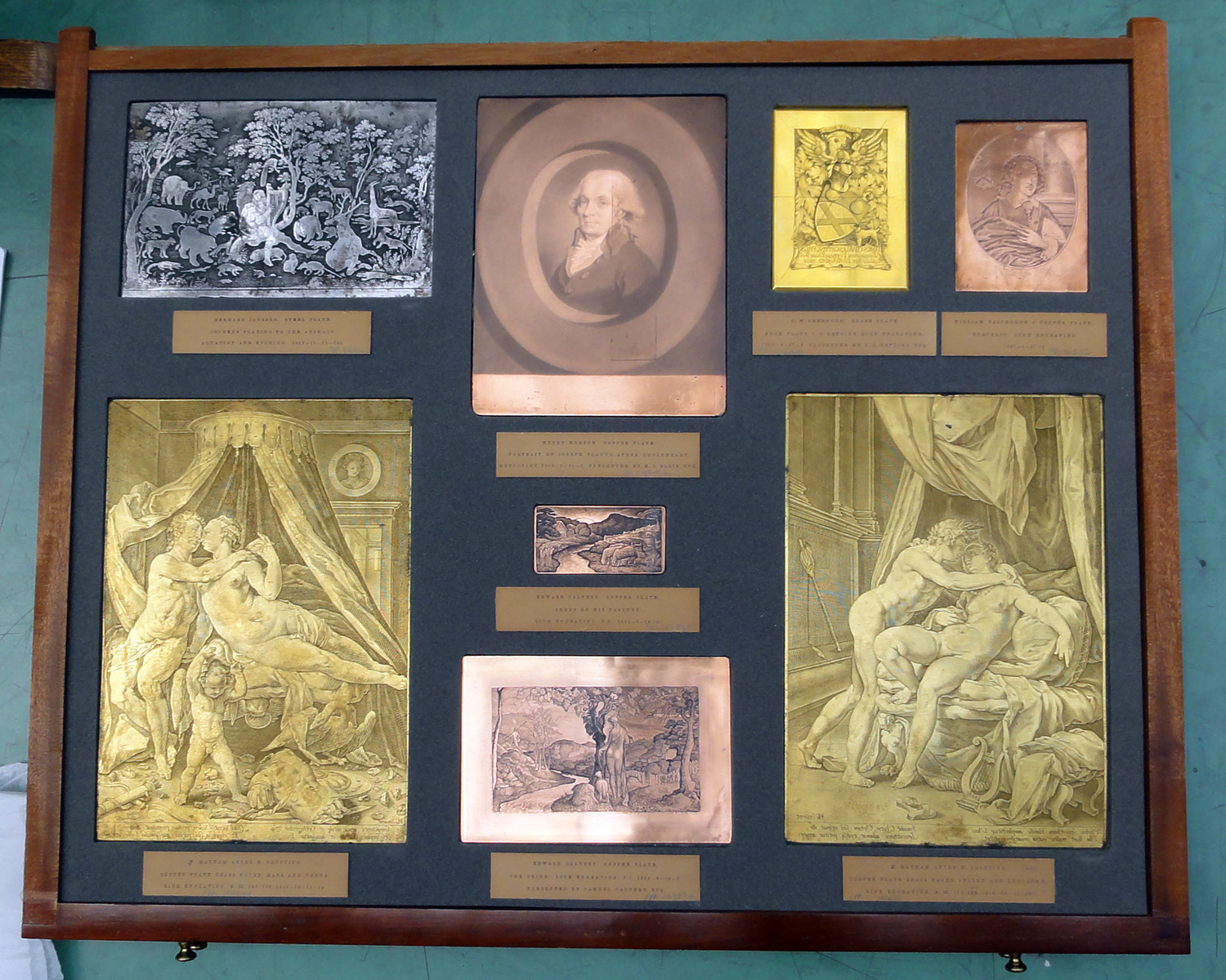 Example selection of engraved printing plates available in the British Museum Prints and Drawings department.